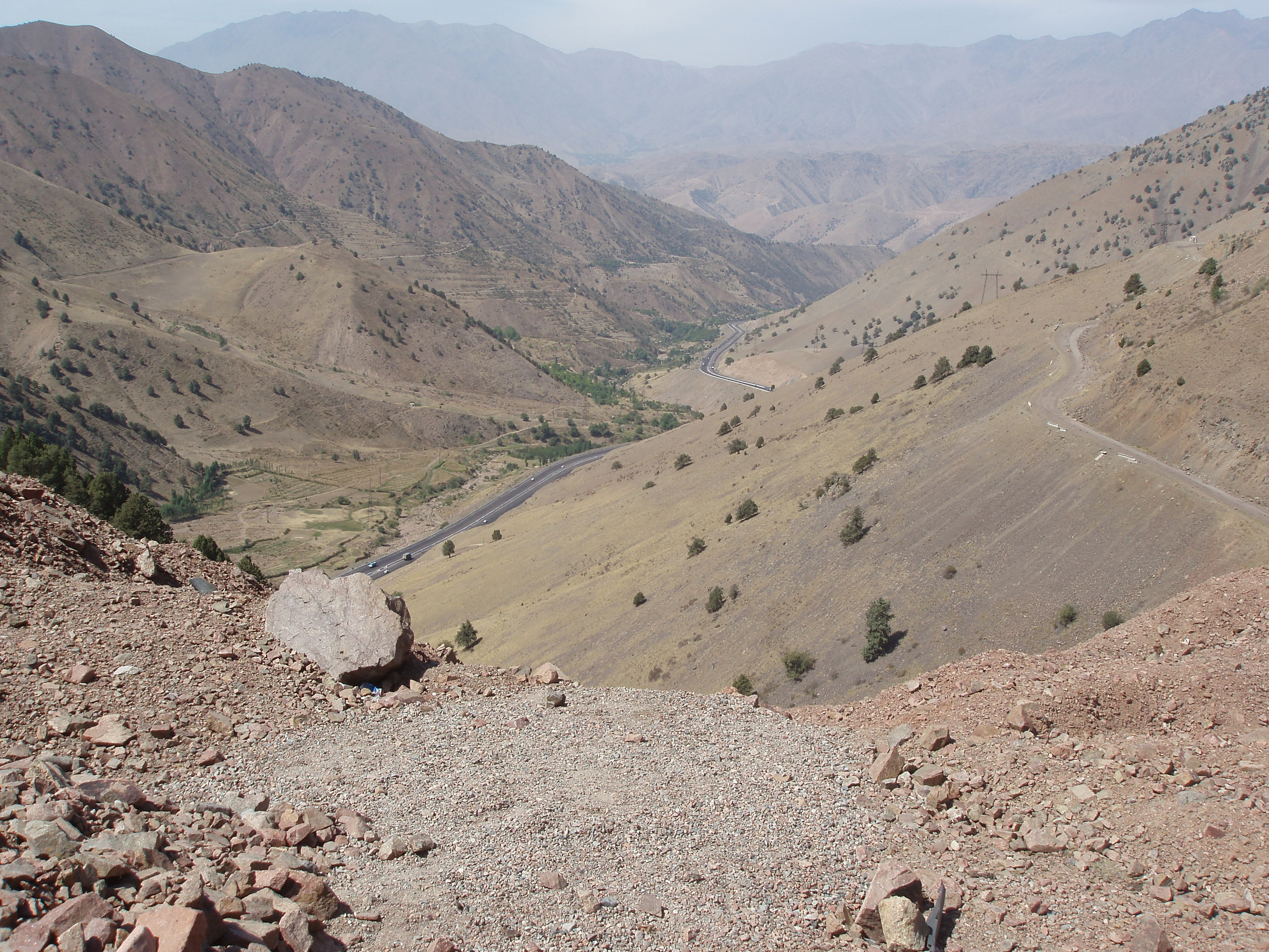 Mountain pass Kamchik (between Tashkent and Fergana valley in Uzbekistan)